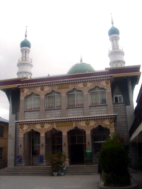 Lhasa Mosque